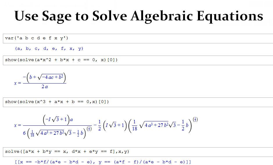 Screenshot of the SAGE mathematics software, showing SAGE solving Algebraic Equations.